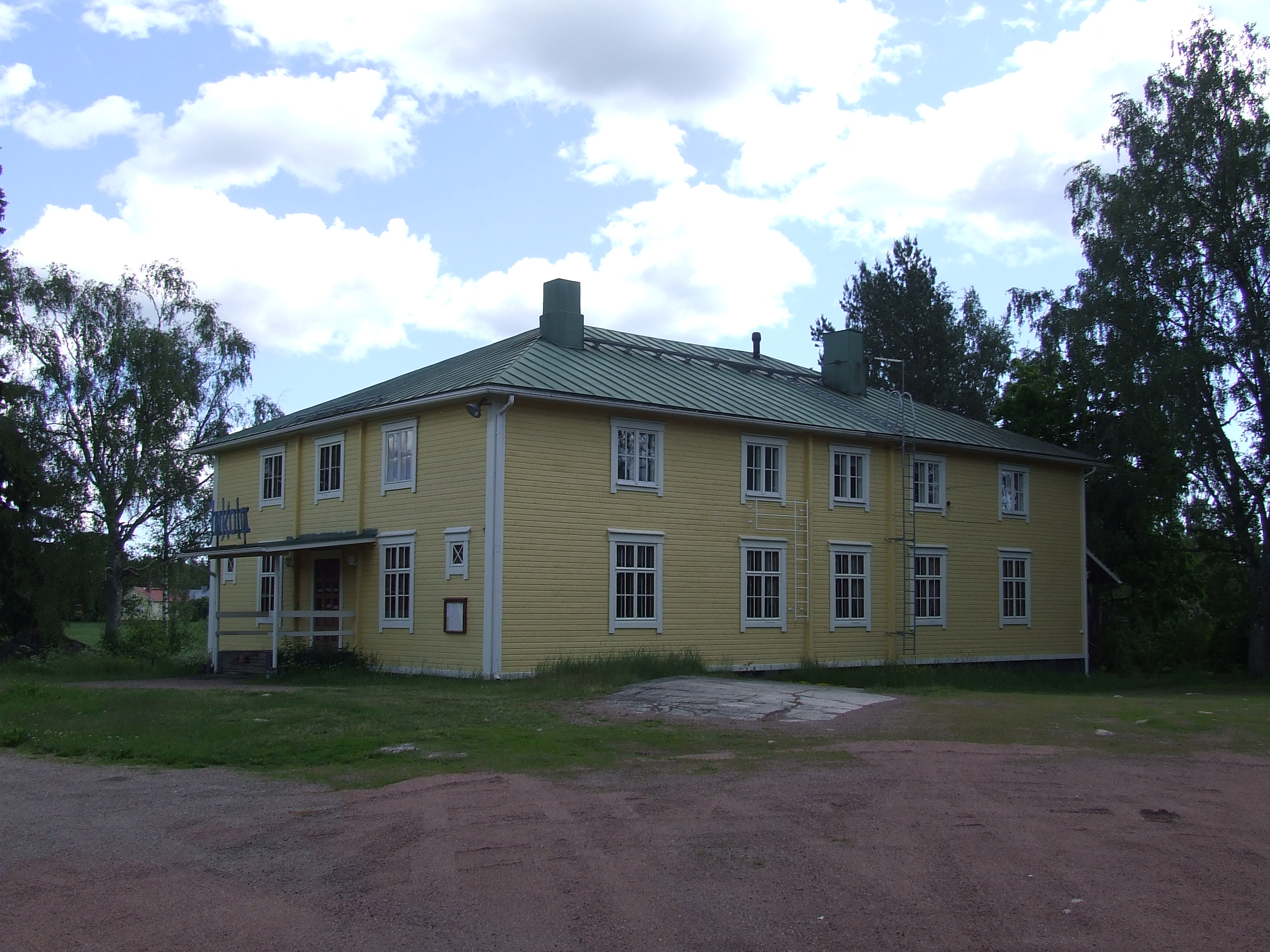 The community house Jukola in Neuvoton, Hamina, Finland.